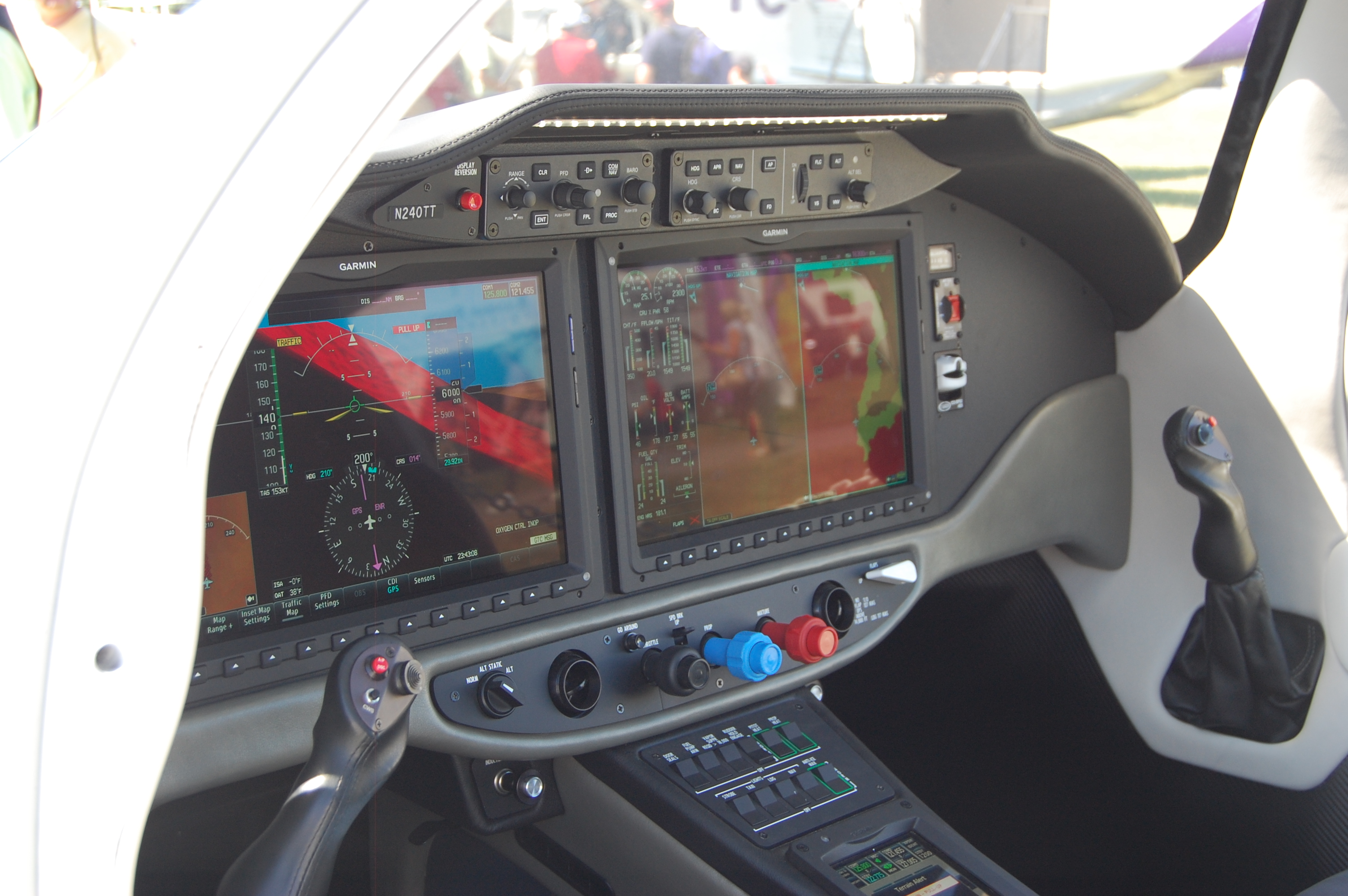 The mockup of the cockpit of the upcoming Corvalis TTx